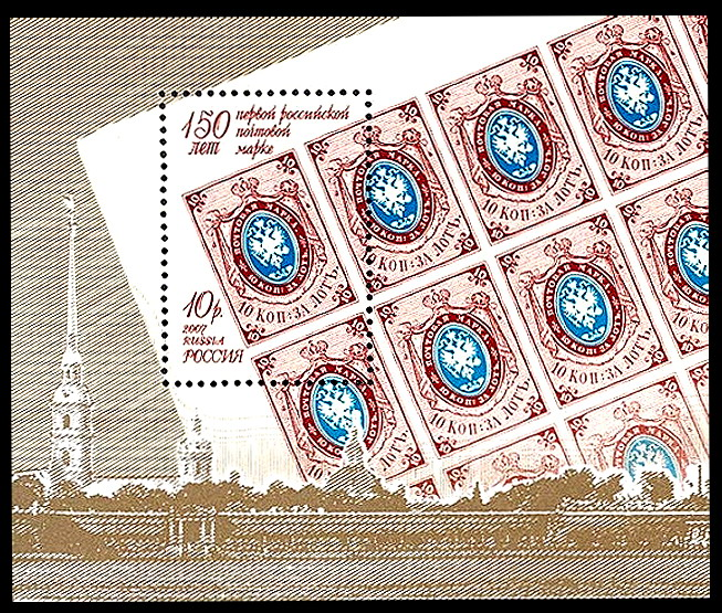 Stamp of Russia, The 150 anniversary of the first Russian stamp, 2007, 10 rub.